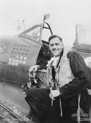 AWM Caption: "Indonesia: Dutch New Guinea; Netherlands East Indies: Halmahera Islands, Morotai. Group Captain Clive R. ("Killer") Caldwell DSO DFC, the Officer Commanding, No. 80 (Fighter) Wing RAAF, next to his Supermarine Spitfire Mk VIII aircraft of No. 452 Squadron RAAF on which are depicted his numerous victories against German, Italian and Japanese aircraft".